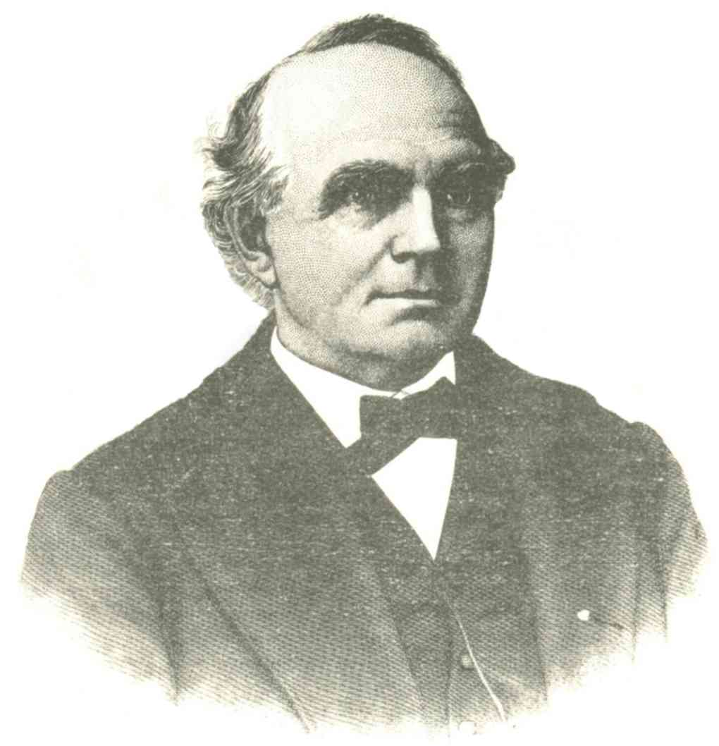 This is a portrait of George Greene.